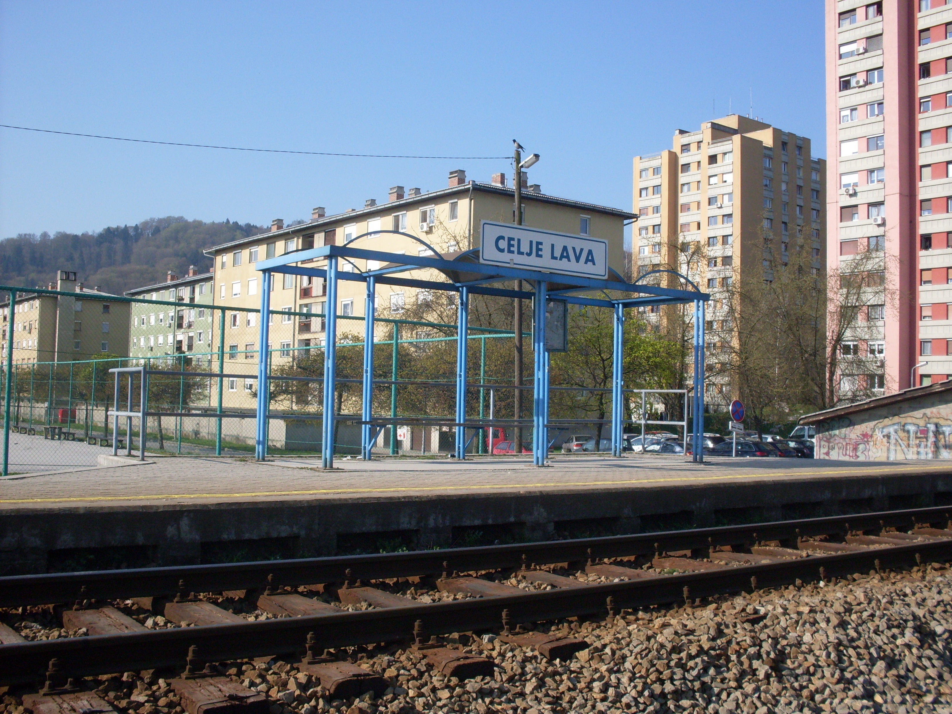 Rail halt Celje Lava, located in western part of Celje